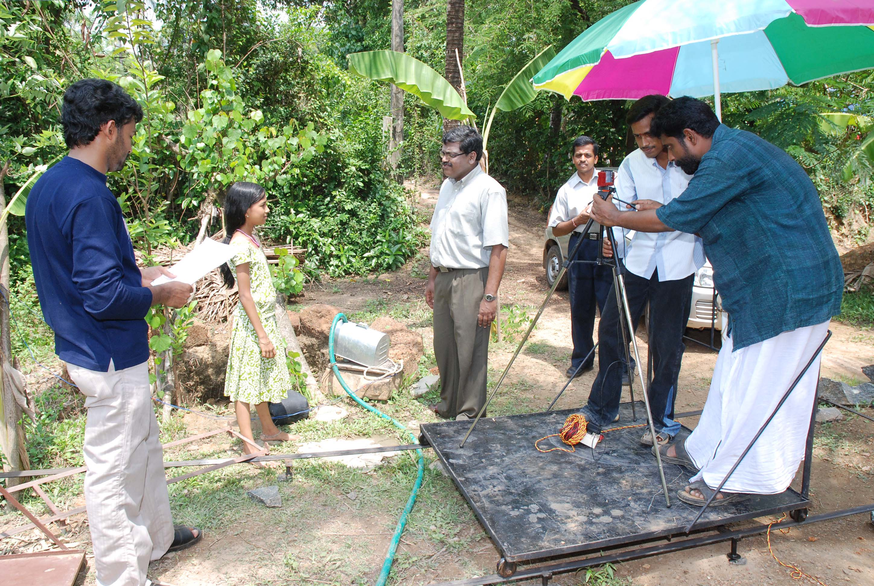 A novel method for digital film making: Sathish Kalathil picturing Dr.B. Jayakrishnan and Baby Lakshmi with mobile camera for Jalachhayam